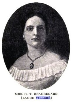 Photograph of Laure Villere Beauregard, first wife of General PGT Beauregard